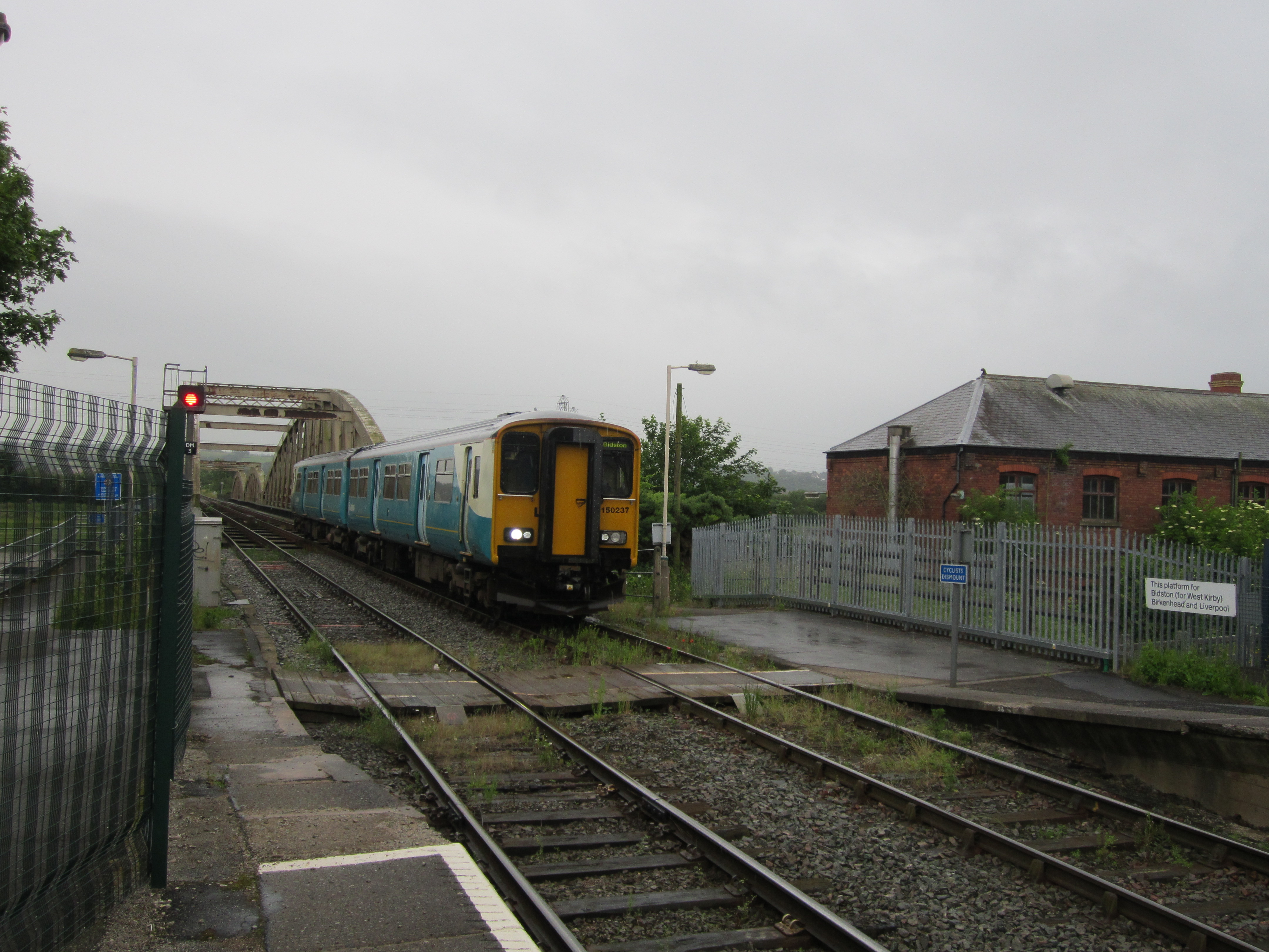 Photo taken at Hawarden Bridge, Flintshire, Wales.